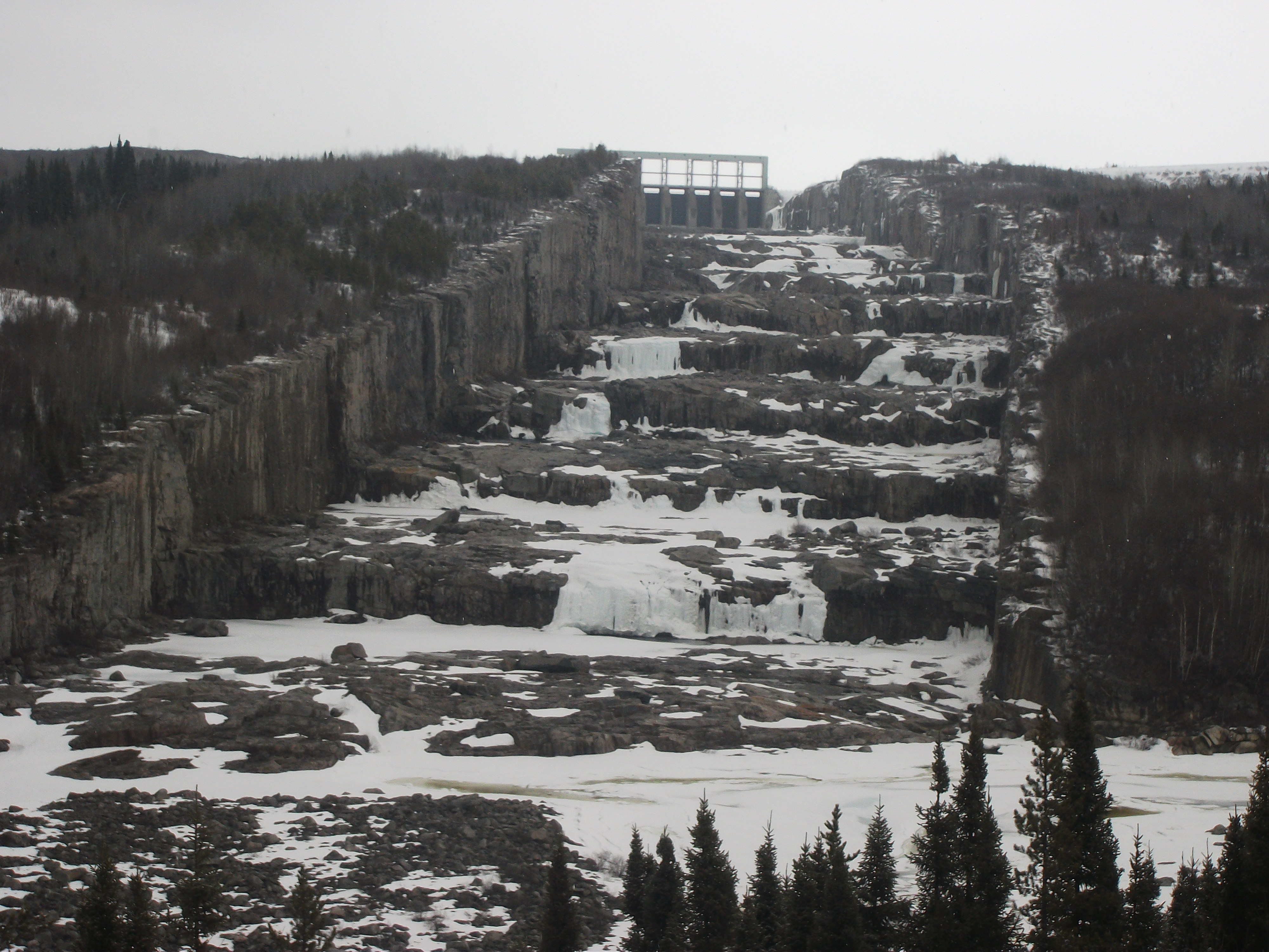 This picture is the Spillway of the dam Robert-Bourrassa (LG2) in Baie-James in Quebec.